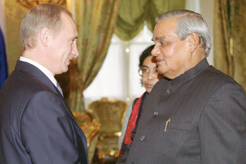 GRAND KREMLIN PALACE, MOSCOW. With Prime Minister Atal Bihari Vajpayee of India.